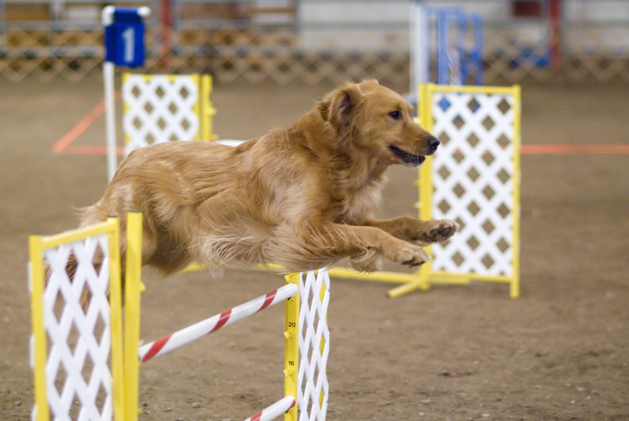 A Golden Retriever during an agility competition.